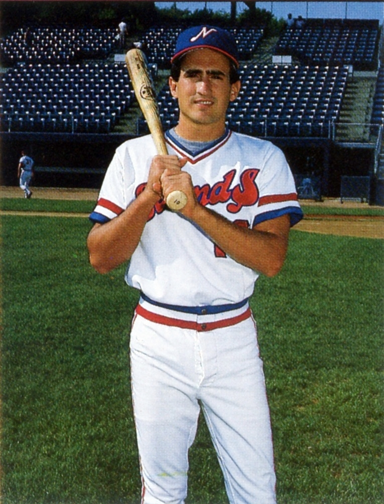 Third baseman Chris Pittaro of the 1985 Nashville Sounds Minor League Baseball team of the American Association